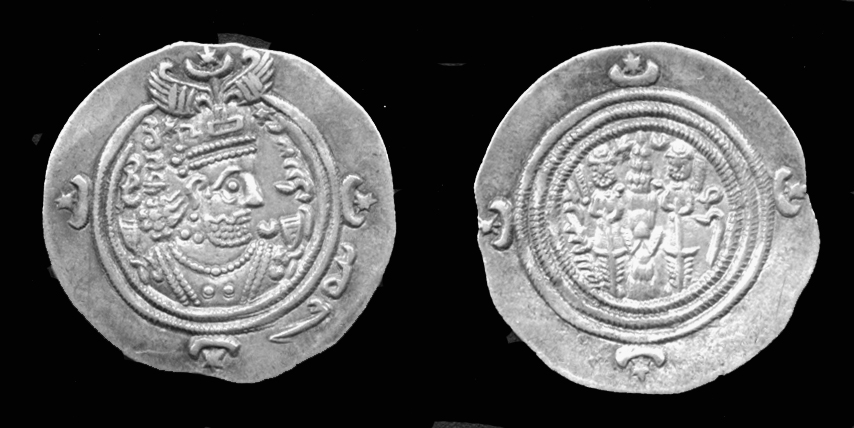 Coin of Khosrau II